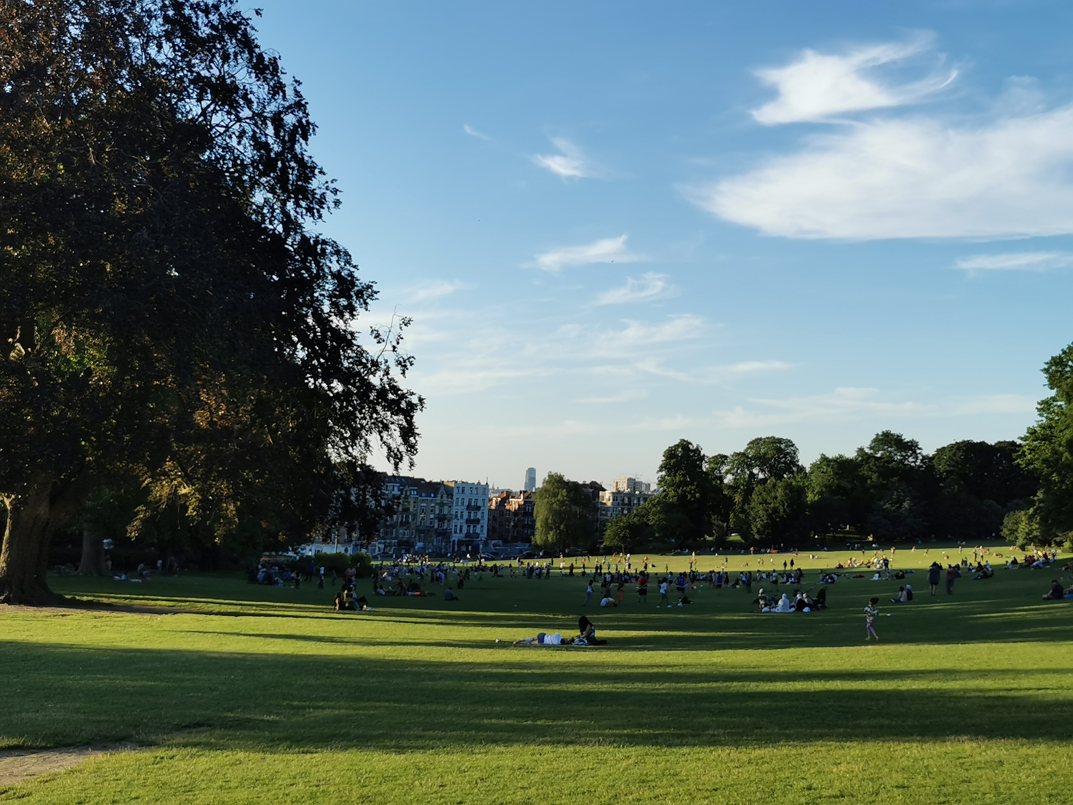 Park of Vorst